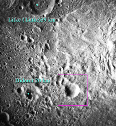 Annotated image from Apollo-15 AS15-M-1035